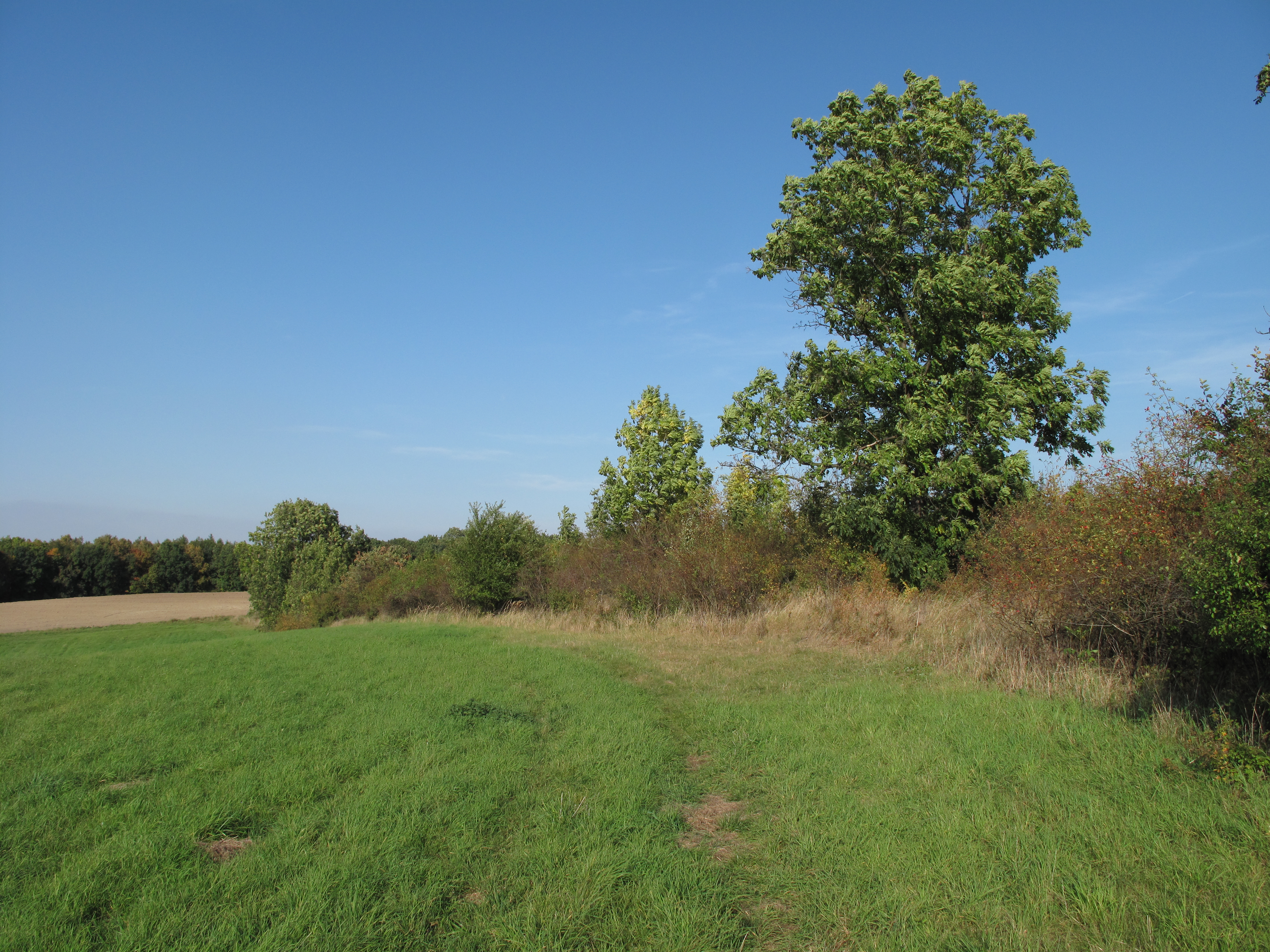 Trees and bushes in Kovárské stráně nature monument, Kladno District, Czech Republic.